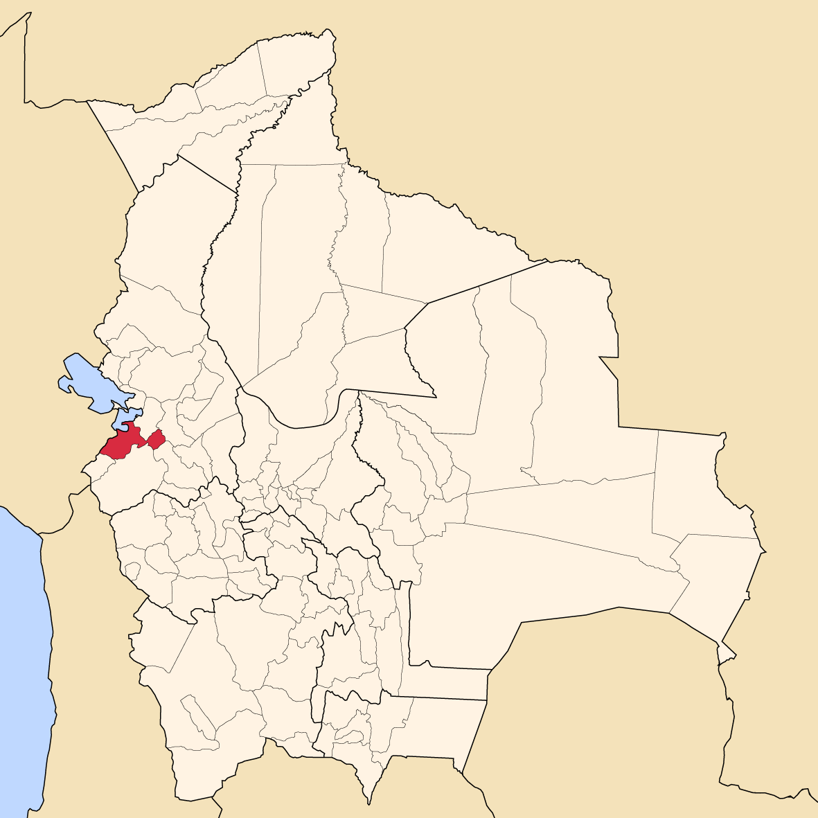 Map of Bolivia showing Ingavi province, La Paz